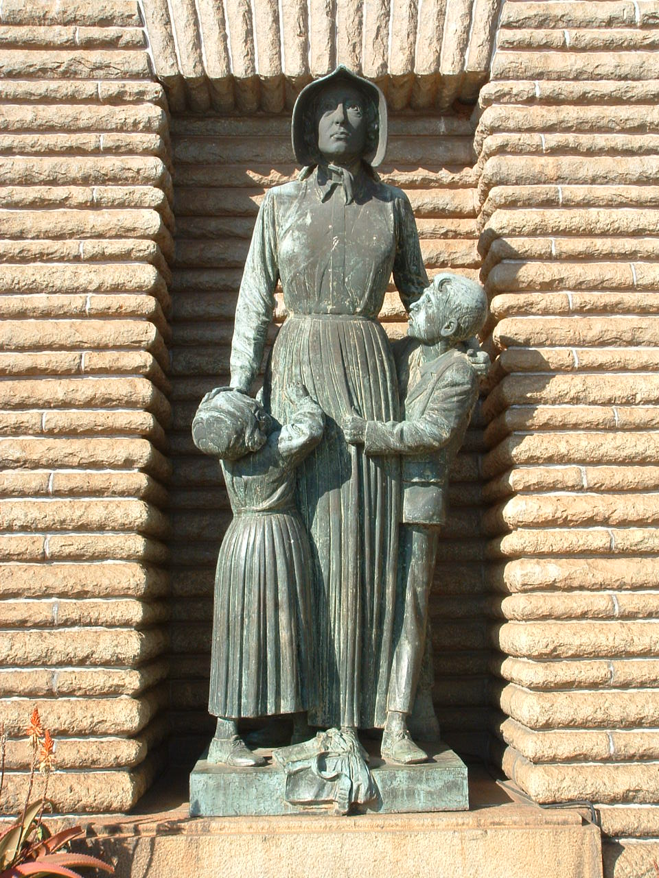 Van Wouw's Voortrekker Vrou Statue at the Voortrekker Monument, Pretoria